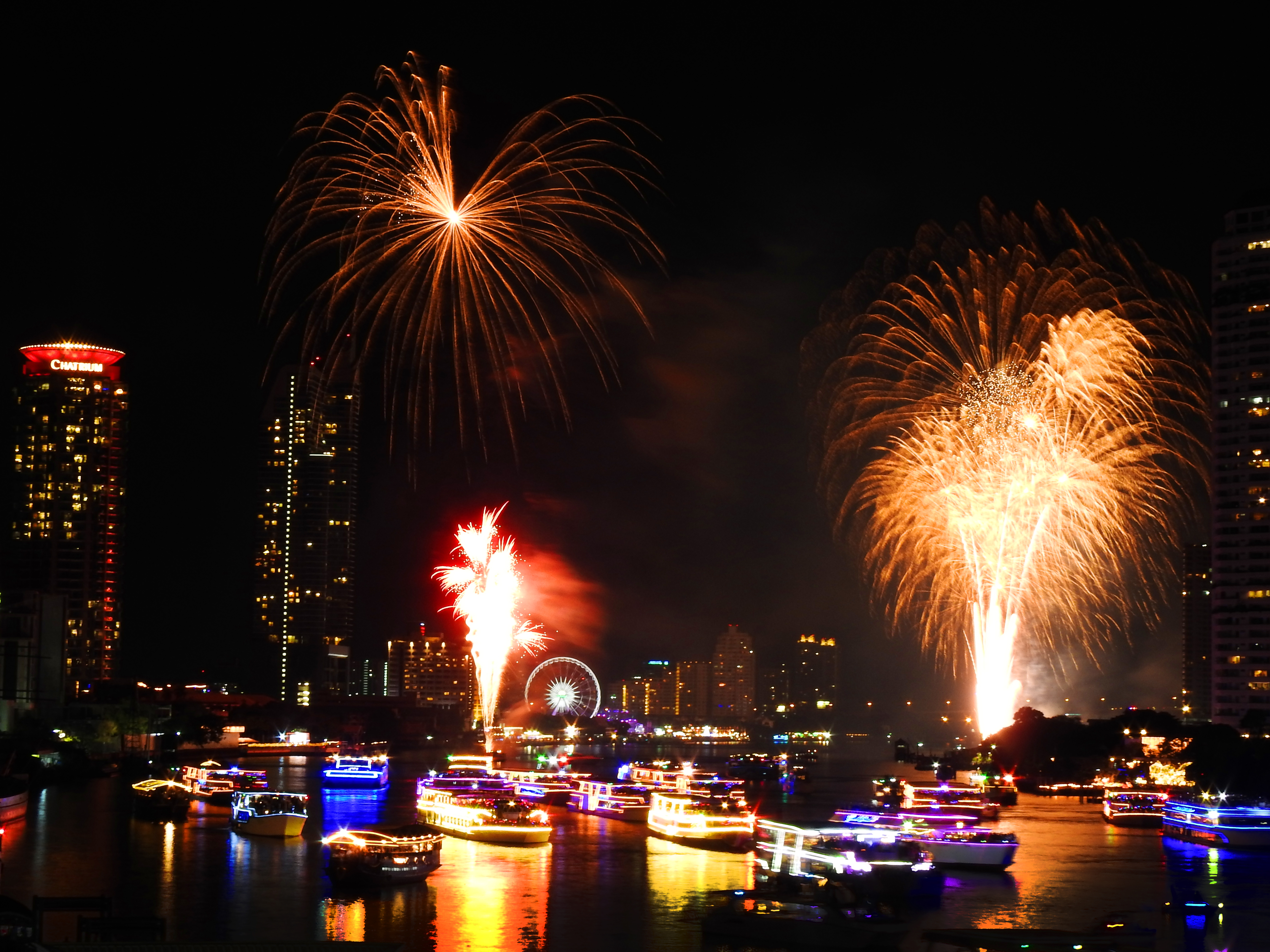 New Year's Eve Fireworks in Bangkok Thailand. Begin of 2019.